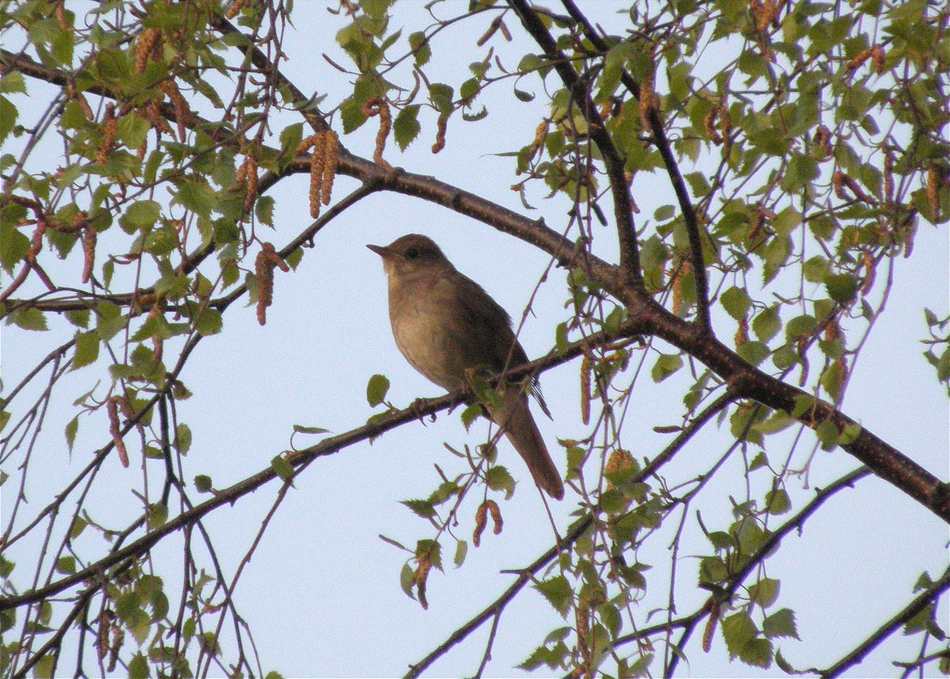 Thrush Nightingale Luscinia luscinia, Tybble, Orebro, Sweden